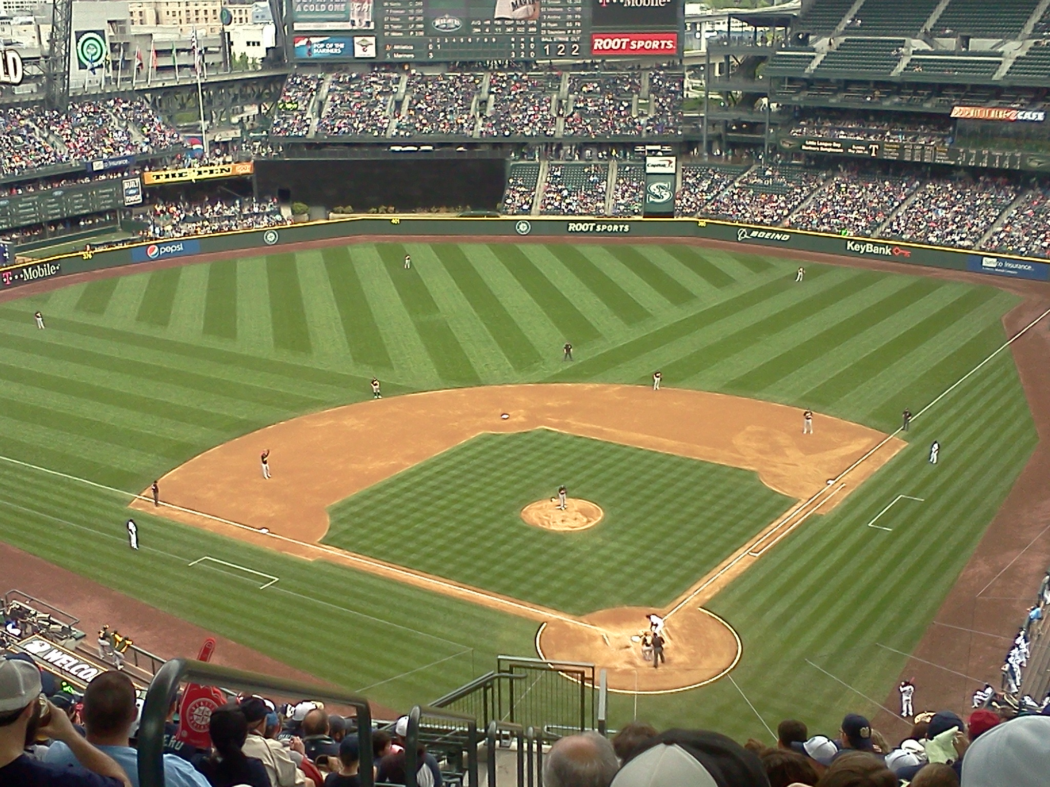 Picture from upper deck behind home plate, Seattle Washington